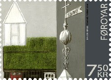 Stamp FO 577 of the Faroe Islands: The church of Sandur